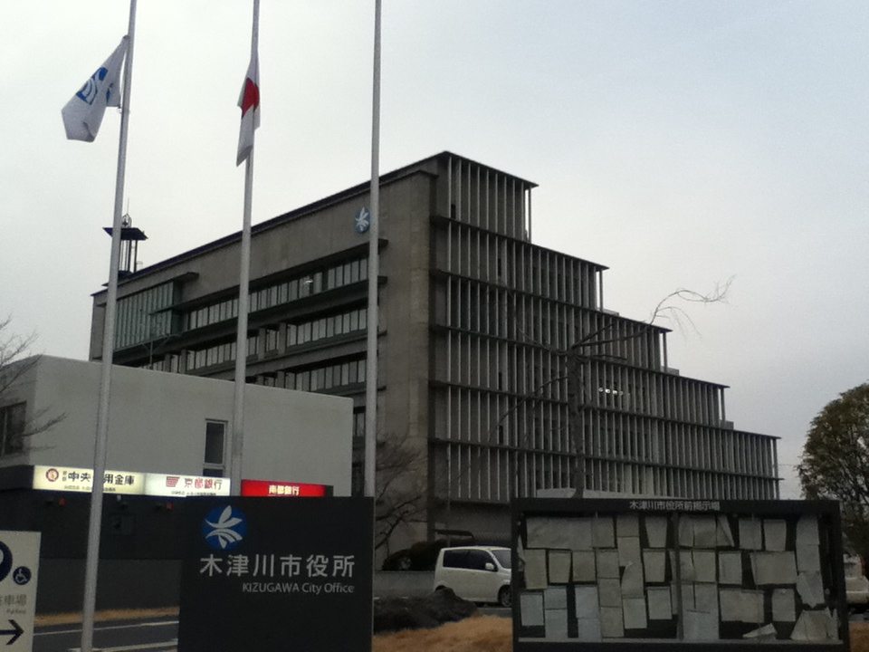 Kizugawa City Hall, Kyoto, Japan.